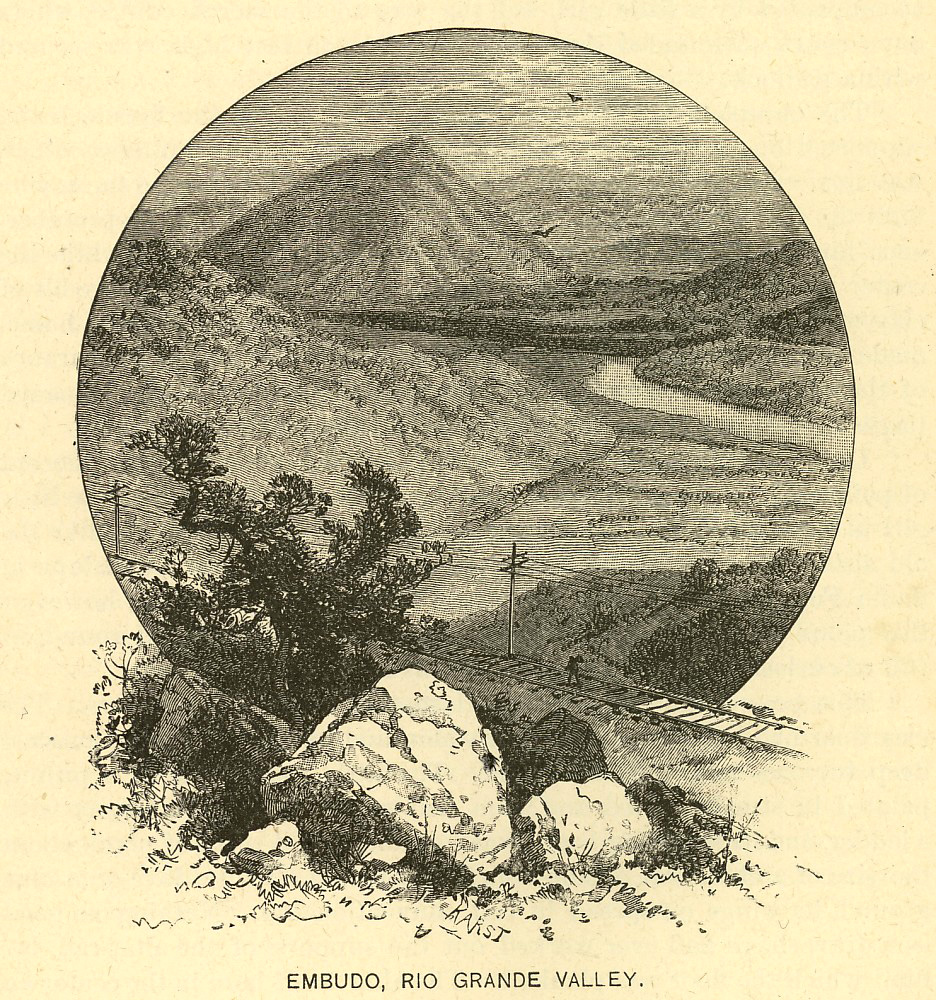 image taken from 1885 book